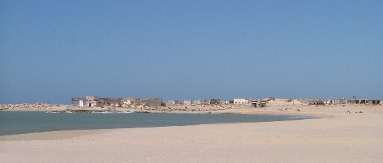 La Güera ruins viewed from the Mauritanian border.